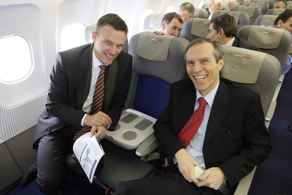 First flight of Lufthansa Italia